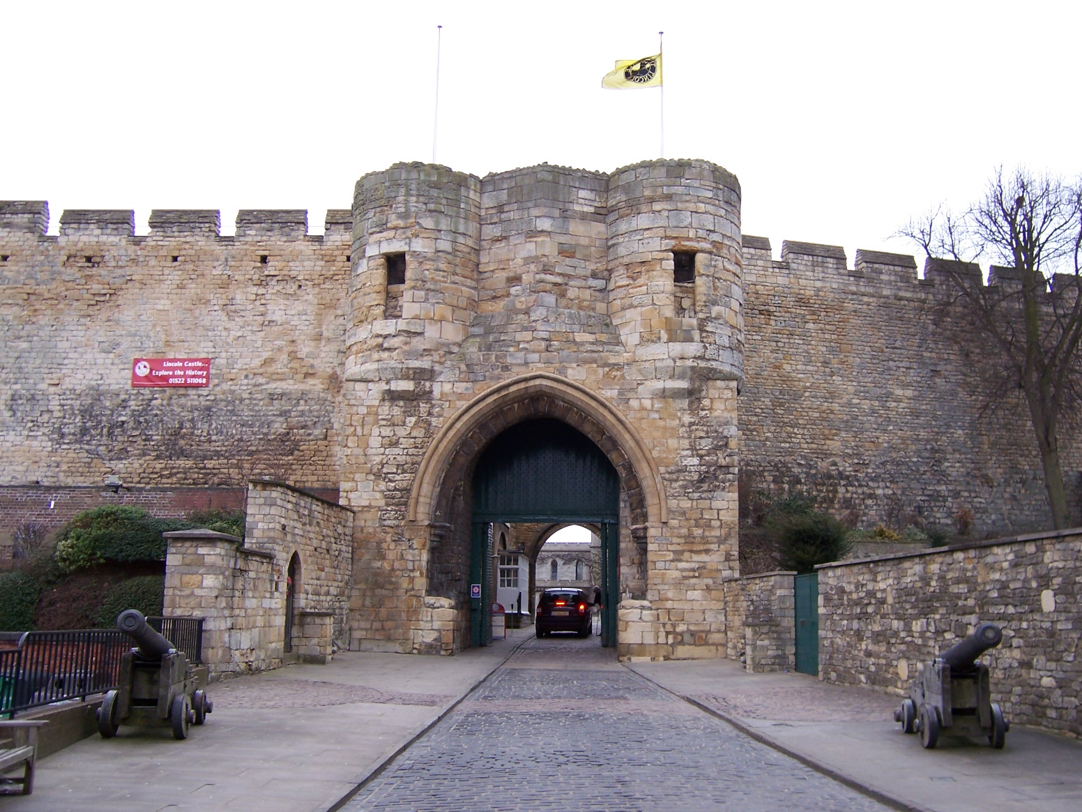 Lincoln Castle, Lincoln (England) own work